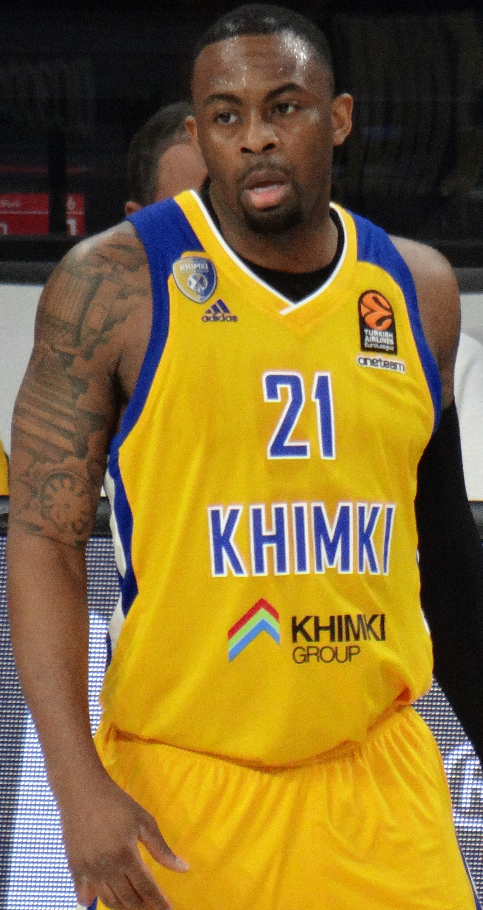 James Anderson (basketball) 21 BC Khimki EuroLeague 20180321